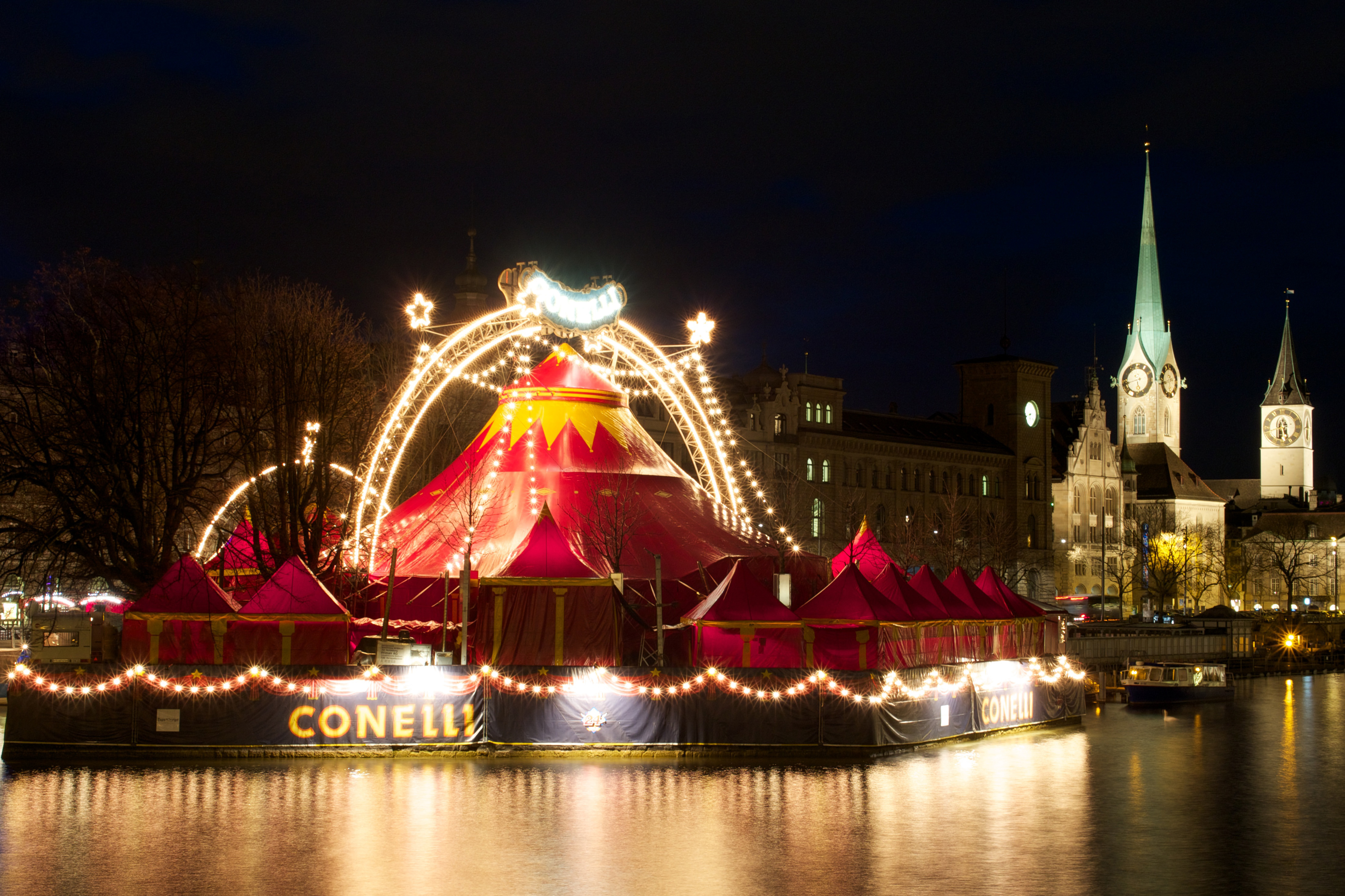 The christmas circus Conelli at the Bauschänzli, Zurich, Switzerland